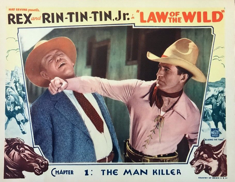 Lobby card for the American western serial film The Law of the Wild (1934) with Richard Cramer and Bob Custer.